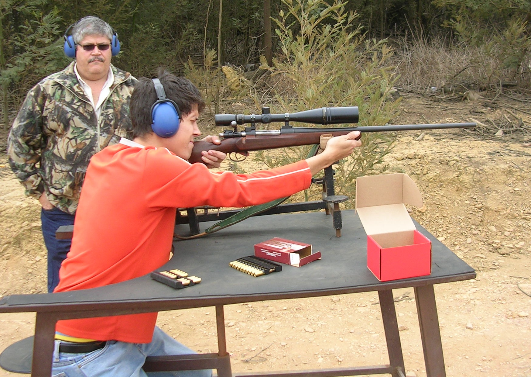 A youth shooting a Mauser hunting rifle.